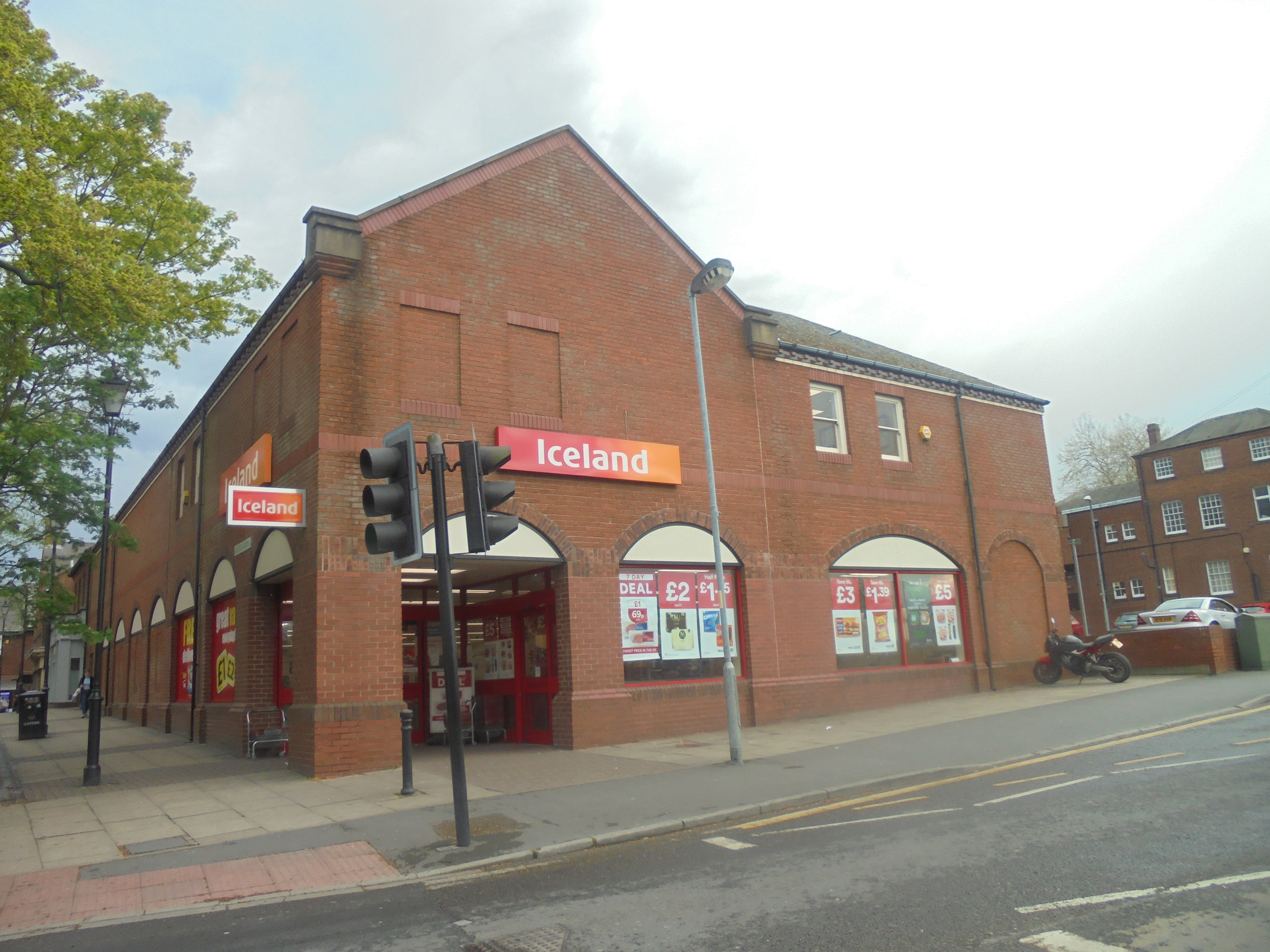 Iceland, Stuart Road, Pontefract, West Yorkshire. Taken on the afternoon of Thursday the 25th of April 2019.